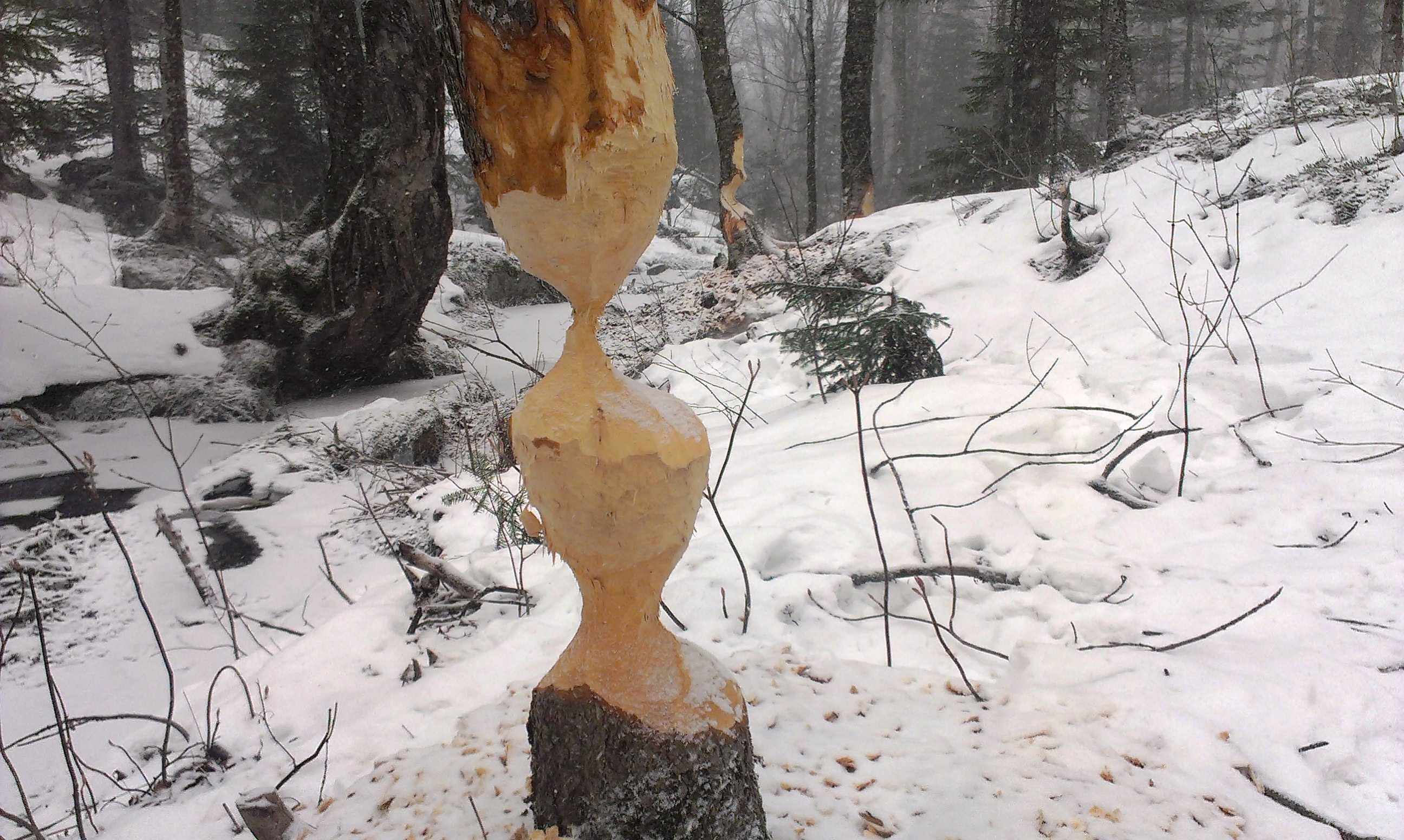 Surprised by a major snow melt, a beaver had to start all over again is cut. Many other cuts are visible in the picture. (pic 2of2) Taken after 5 days of a specially warm weather for December 2014 in Quebec, followed buy a -18c ( the day the picture was taken).